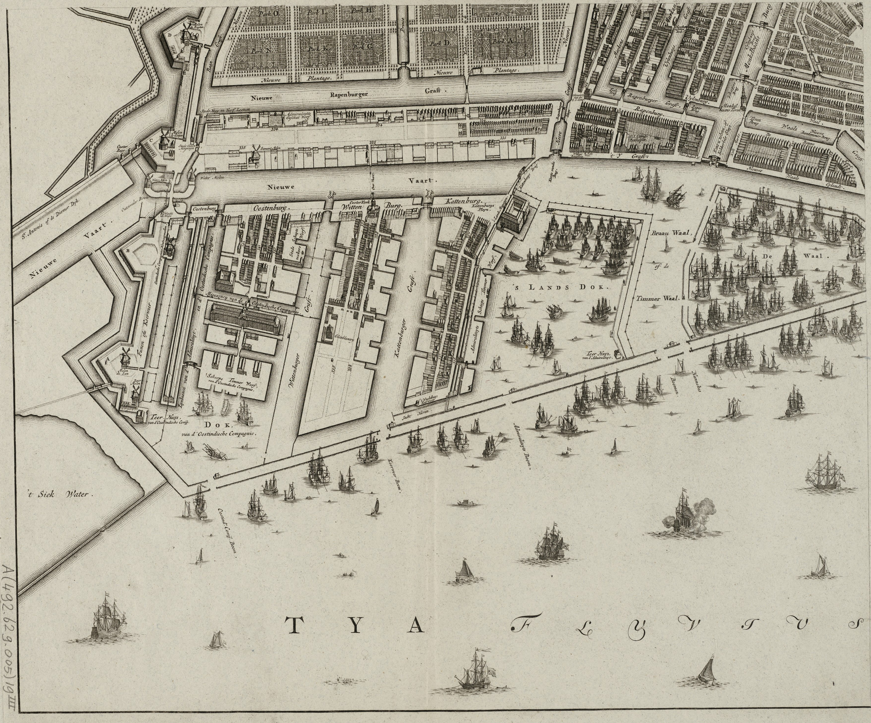 Map of Amsterdam by Gerrit de Broen, dated ~1782. Part 3 of a 4-part map.